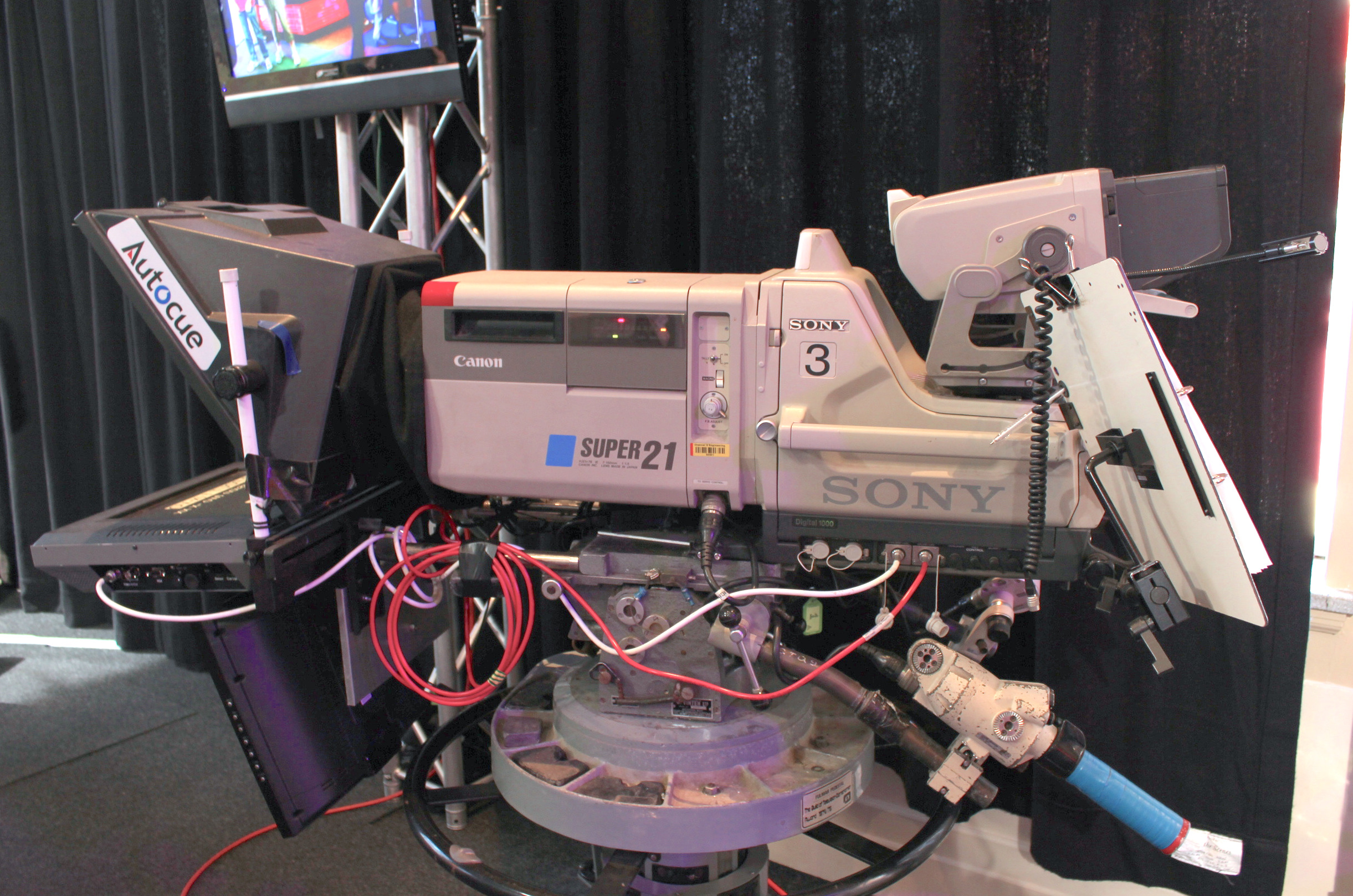 A studio camera on public display in QTQ9's Channel 9 broadcast centre at the Brisbane Ekka in 2011.